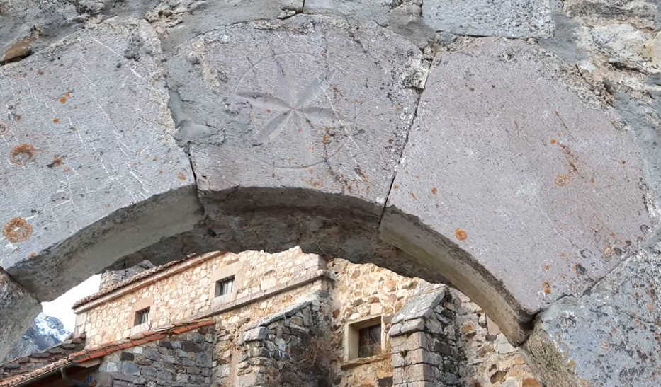 En este arco,que da acceso a la iglesia, se puede apreciar el contorno de una flor galana o rosa celta, imagen muy expandida por las zonas de León y Asturias.